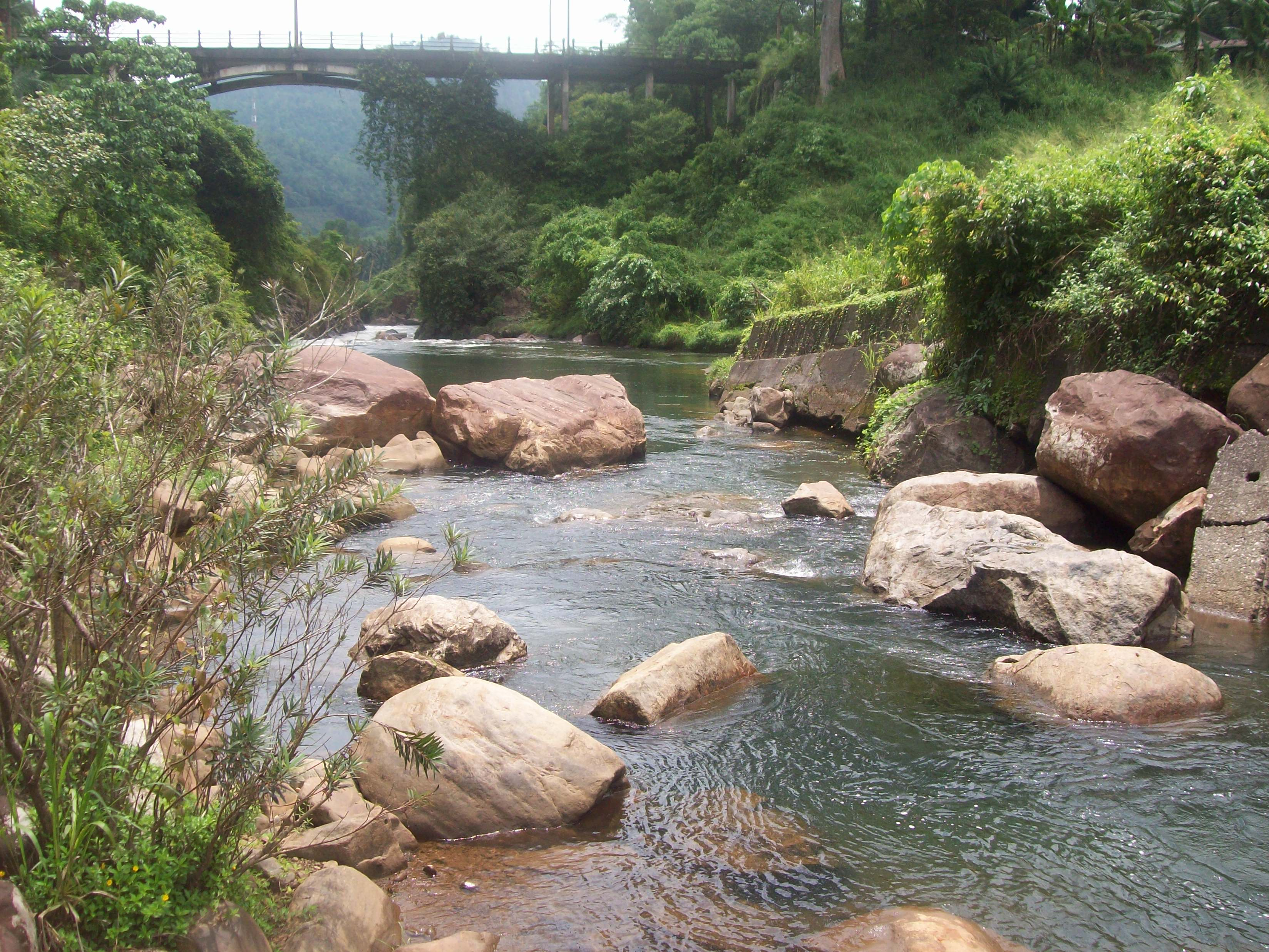 Downstream view of the Maskeliya Oya, as seen from near the Polpitiya Hydroelectric Power Station, Sri Lanka. The power station is run using water from the Laxapana Dam. Maskeliya Oya is a major tributary to the Kelani River.